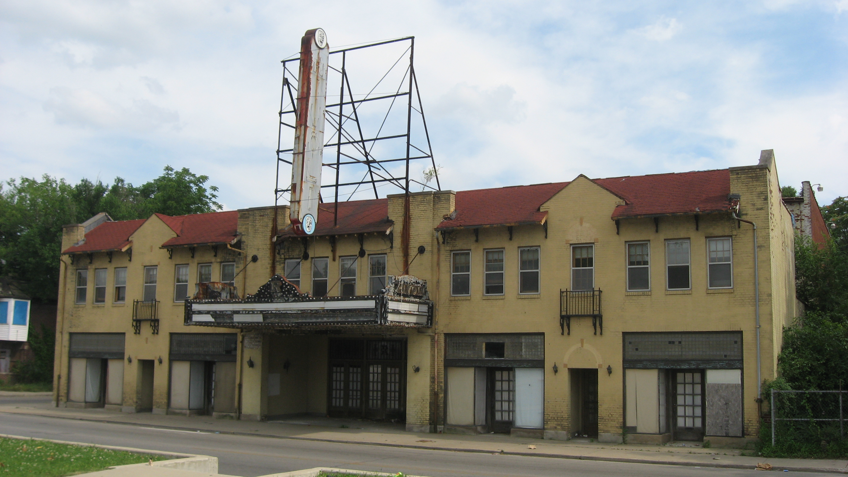 Front of the Rivoli Theater, located at 3155 E. Tenth Street in Indianapolis, Indiana, United States. Built in 1927, it is listed on the National Register of Historic Places.